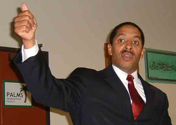 Los Angeles City Council Member Martin Ludlow, speaking at a Palms Neighborhood Council meeting. Photo by George Garrigues.